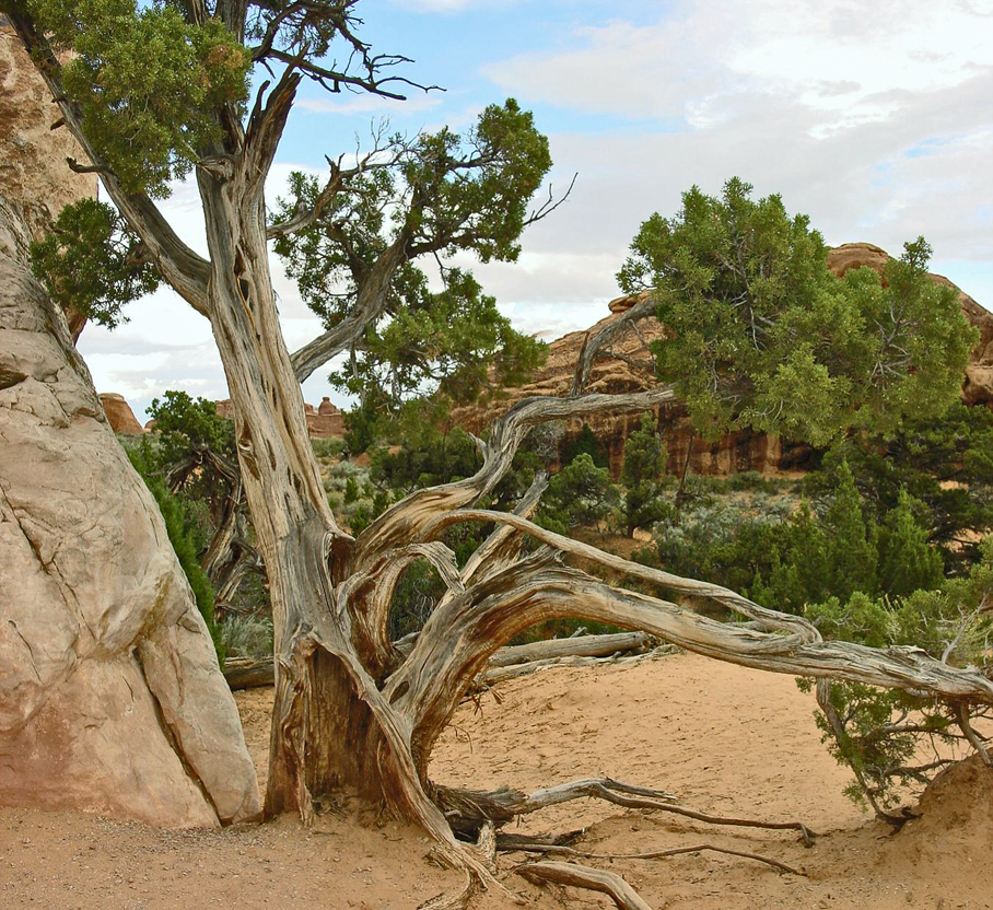 Arches NP, pine tree